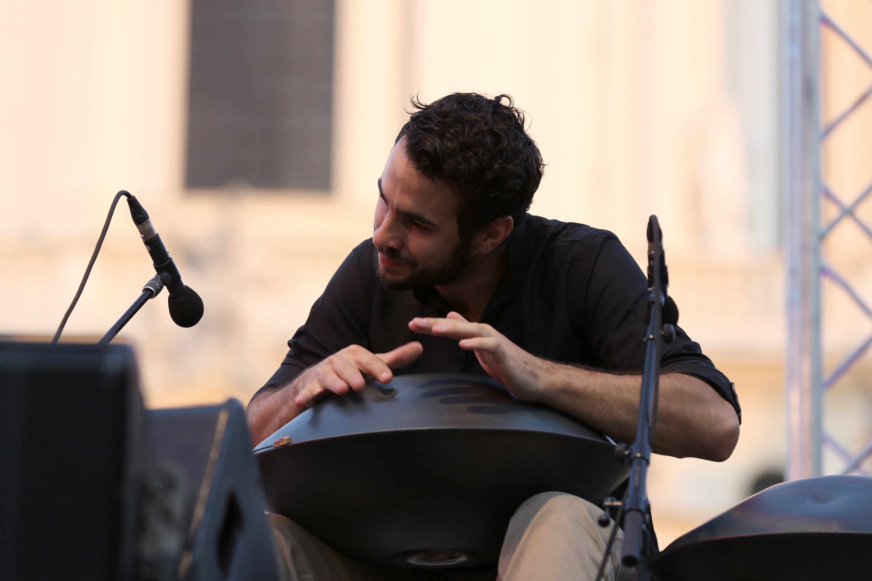 Manu Delago Handmade, concert at Karlsplatz during Popfest 2014 in Vienna, Austria.